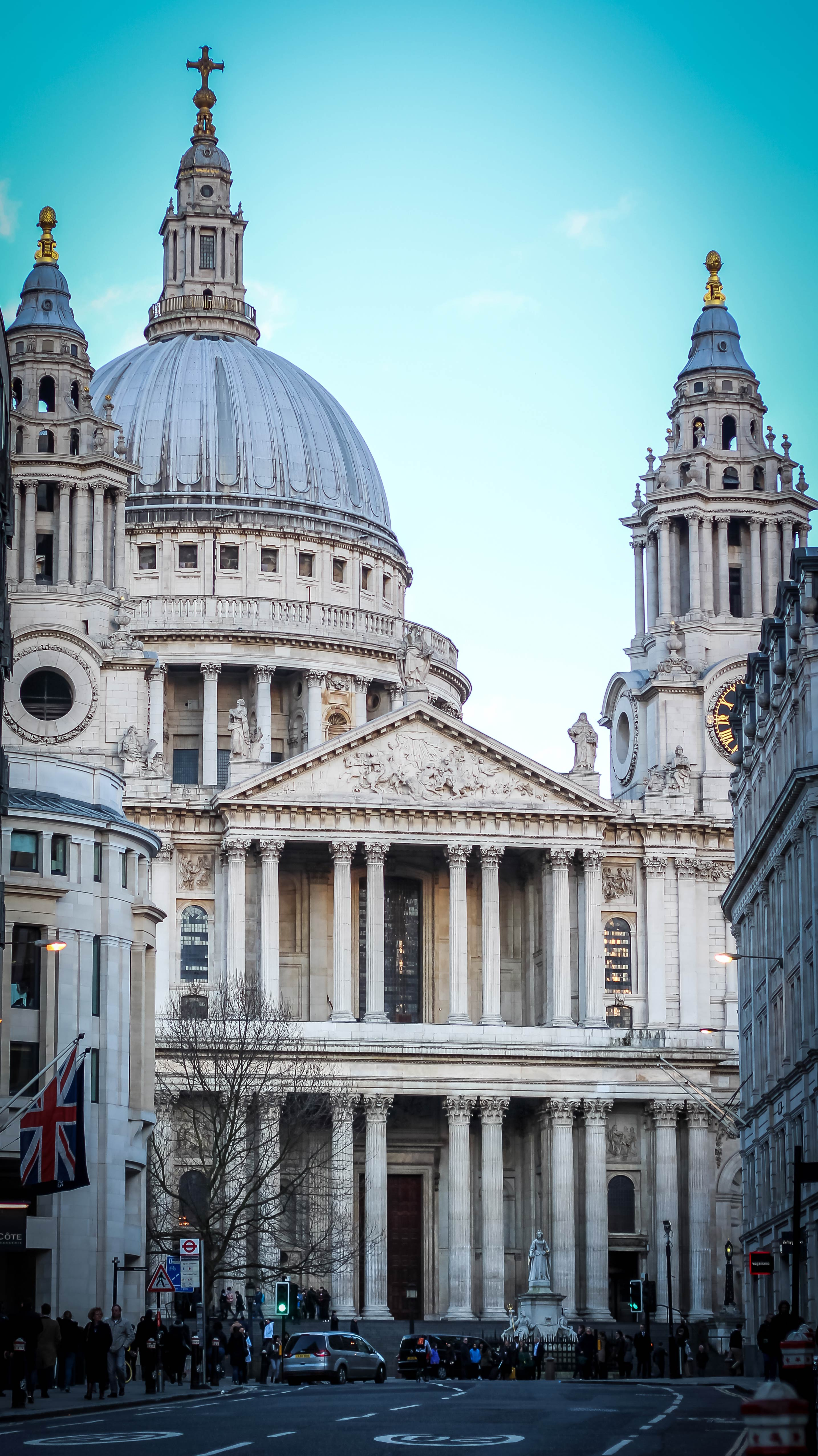 St Pauls Cathedral West Front